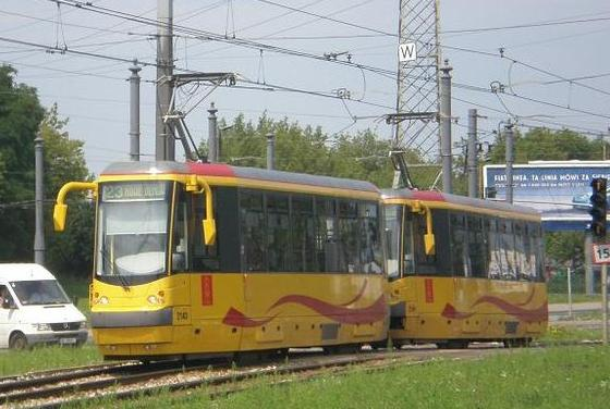 FPS Cegielski 123N tram (#2140+2141) in Poland. Built 2007. Tramwaje Warszawskie operator.